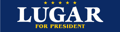 Richard Lugar presidential campaign, 1996